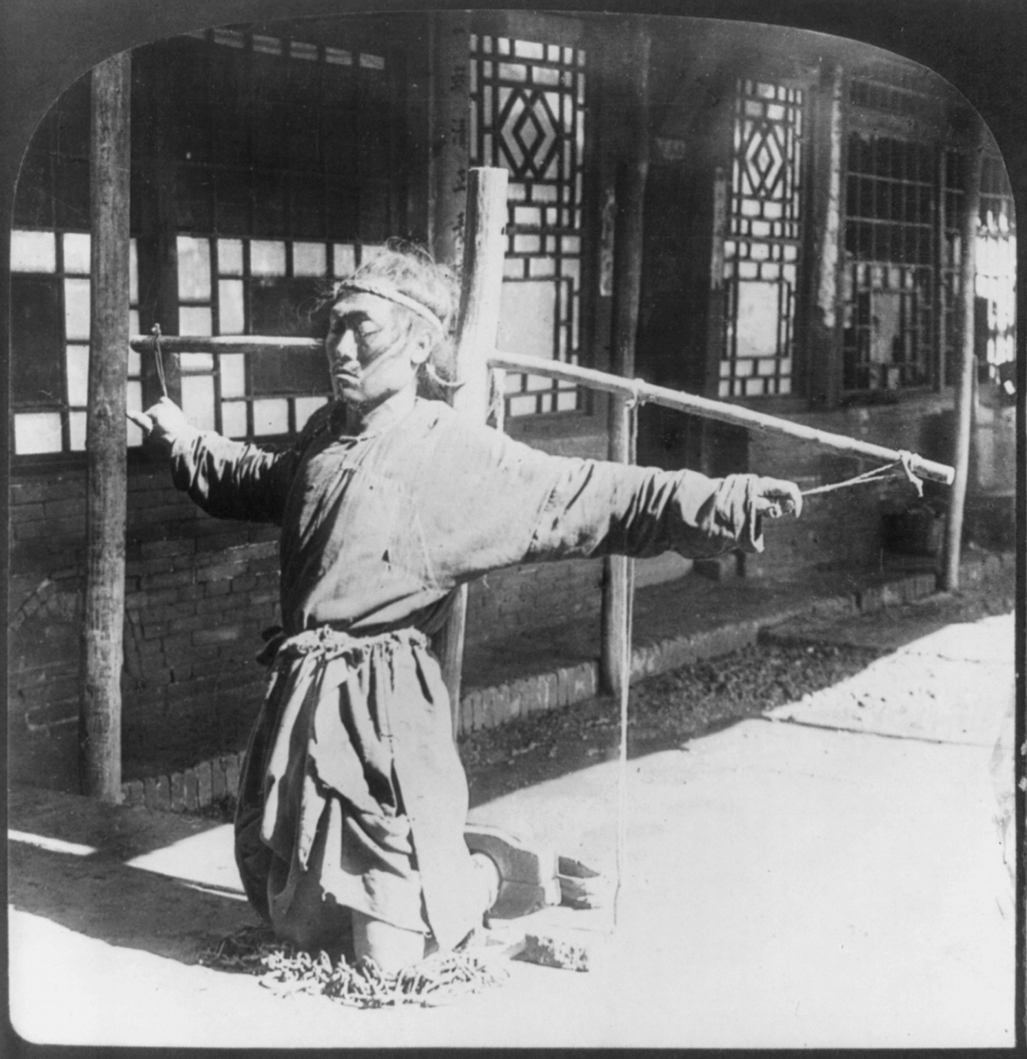 Public Domain. Suggested credit: Library of Congress via pingnews. Additional information from source: TITLE: Chinese justice - prisoner kneeling on chains, thumbs supporting arms, Moukden CALL NUMBER: STEREO FOREIGN GEOG FILE - CHINA--MOUKDEN [item] [P&P] REPRODUCTION NUMBER: LC-USZ62-70832 (b&w film copy neg. of half stereo) No known restrictions on publication. MEDIUM: 1 photographic print on stereo card : stereograph. CREATED/PUBLISHED: c1906. NOTES: Stereo copyrighted by Hawley C. White Co. No. 8633. This record contains unverified, old data from caption card. Caption card tracings: Ph. Ind.; Manchuria--Mukden; China-; Prisons and punishment. REPOSITORY: Library of Congress Prints and Photographs Division Washington, D.C. 20540 USA DIGITAL ID: (b&w film copy neg.) cph 3b18225 CARD #: 2003655363